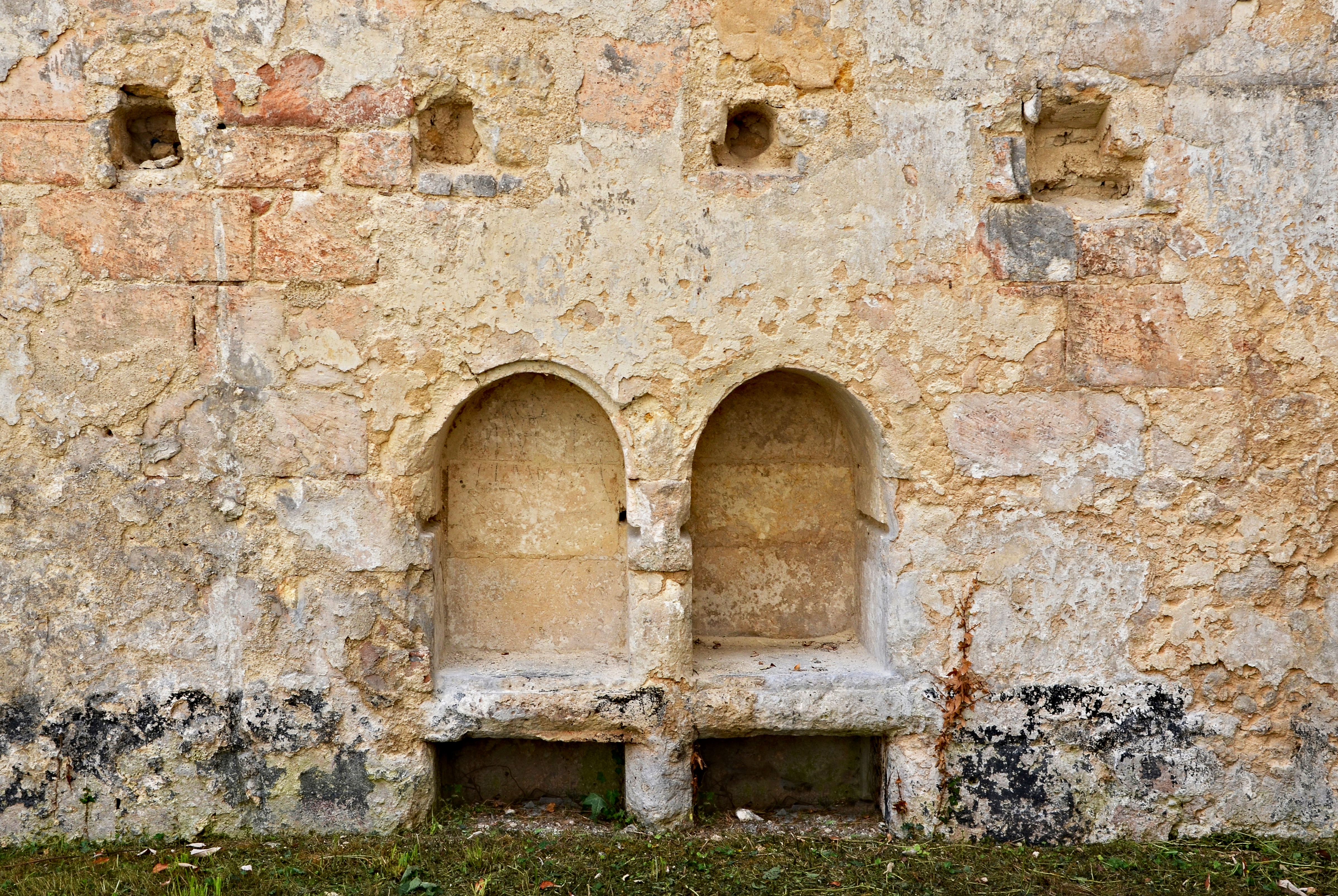 Recesses and holes for timber in the remains of the refectory walls. Abbey of Saint-Cybard, Angoulême, Charente, France. .